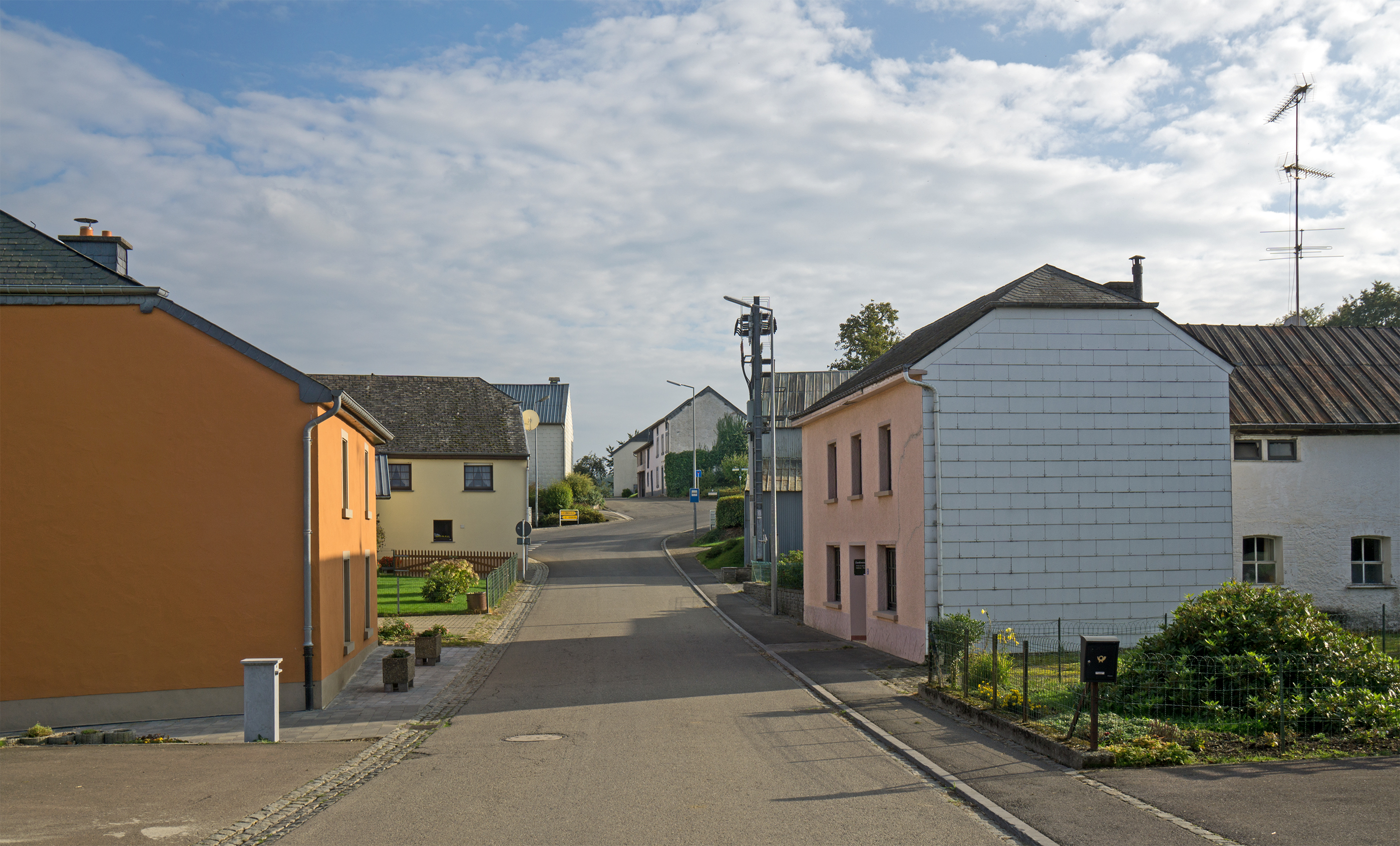 Crossing of the village road with the CR373 in Rumlange